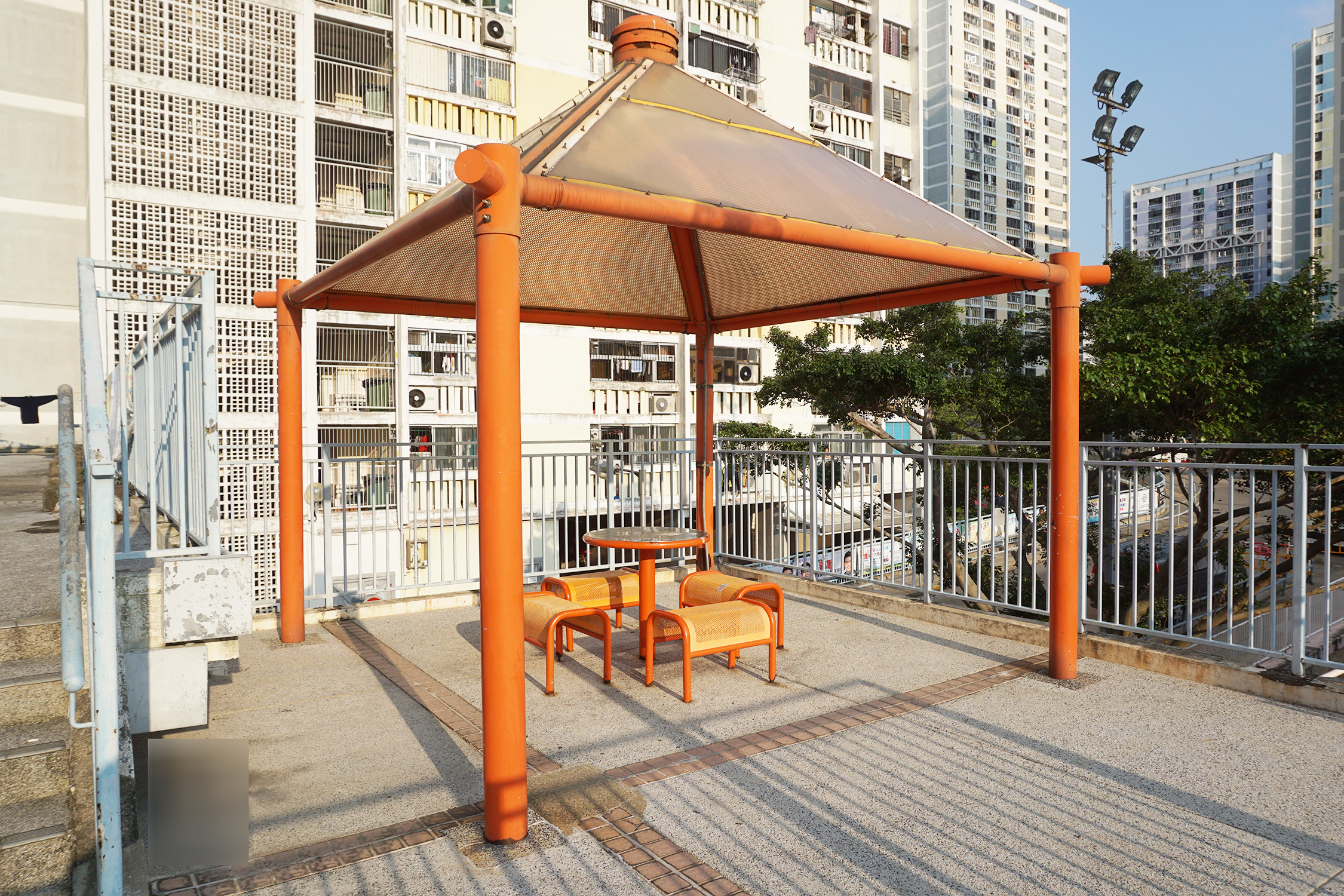 Wah Fu (II) Estate in Pok Fu Lam, Hong Kong.